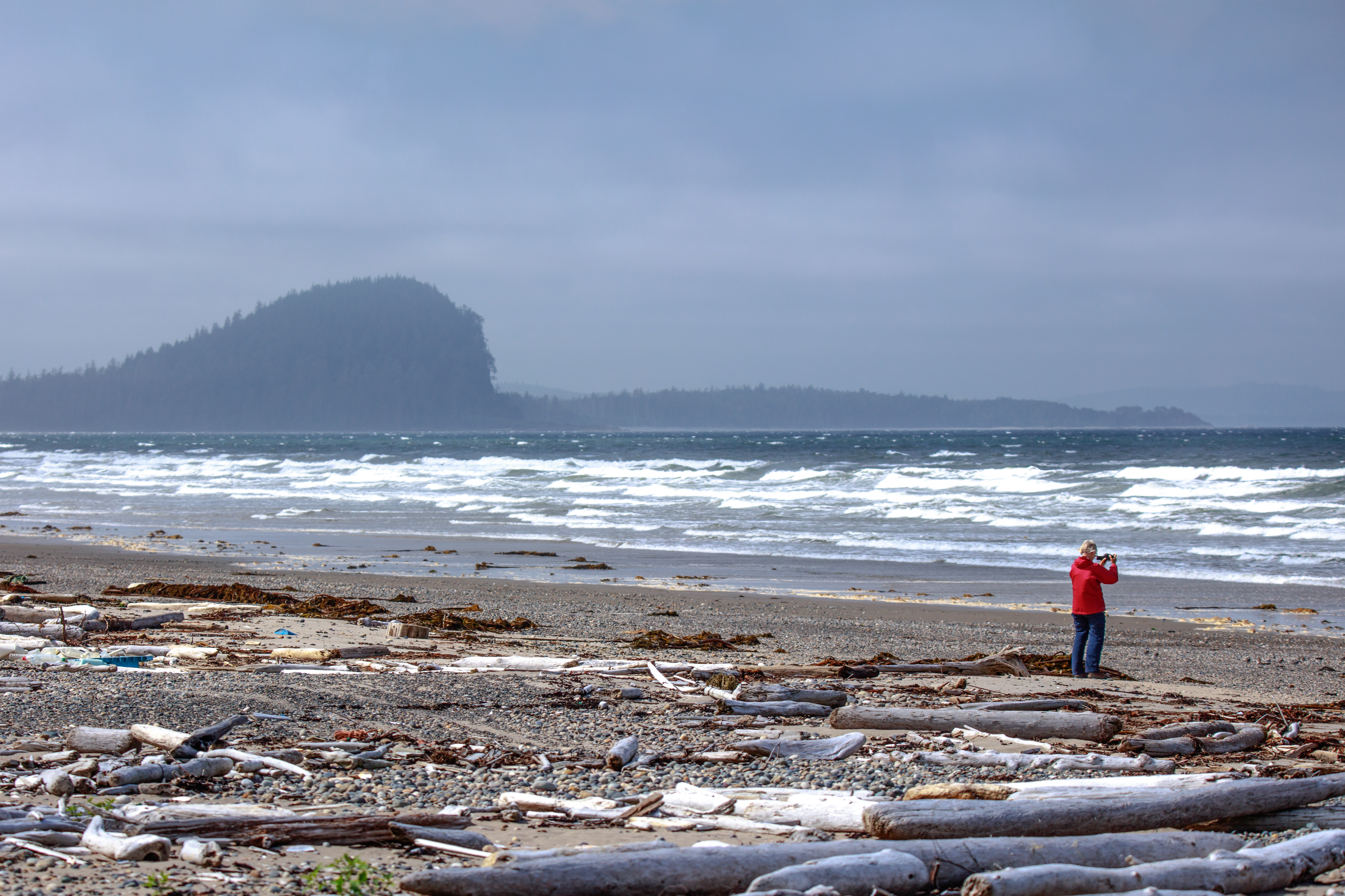 Haida Gwaii (Queen Charlotte Islands)...Graham Island...a few hikes around the N end of Naikoon Provincial Park...scenes along the North Beach...looking SW through the waves to Tow Hill...